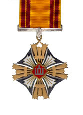 5th (lowest) grade of Order of the Lithuanian Grand Duke Gediminas